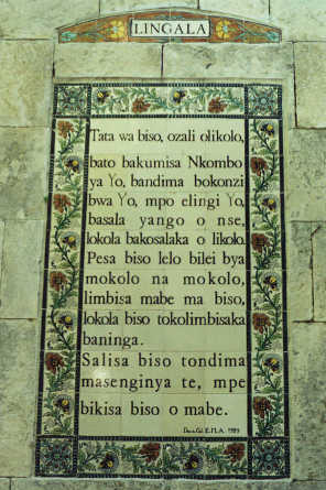 Lord's Prayer (Pater Noster) in LingalaText (ASCII): Tata wa biso, ozali olikolo, bato bakumisa Nkombo ya Yo, bandima bokonzi bwa Yo, mpo elingi Yo, basala yango o nse, lokola bakosalaka o likolo. Pesa biso lelo bilei bya mokolo na mokolo, limbisa mabe ma biso, lokola biso tokolimbisaka baninga. Salisa biso tondima masenginya te, mpe bikisa biso o mabe. Text (Unicode): Tatá wa bísó, ozali o likoló, bato bakúmisa Nkɔ́mbo ya Yɔ́, bandima bokonzi bwa Yɔ́, mpo elingo Yɔ́, basálá yangó o nsé, lokóla bakosalaka o likoló Pésa bísó lɛlɔ́ biléi bya mokɔlɔ na mokɔlɔ, límbisa mabé ma bísó, lokóla bísó tokolimbisaka baníngá. Sálisa bísó tondima masɛ́nginyá tê, mpe bíkisa bísó o mabé.